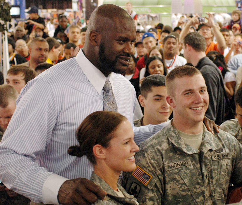 Army National Guard members Staff Sgt. Maygen Matson, left, and Spc. Taylor Anonson pose for a photo with National Basketball Association superstar Shaquille O'Neal during NBA All-Star Weekend in Phoenix, Feb. 15, 2009. U.S. Air Force photo by Tech. Sgt. Angela Walz.